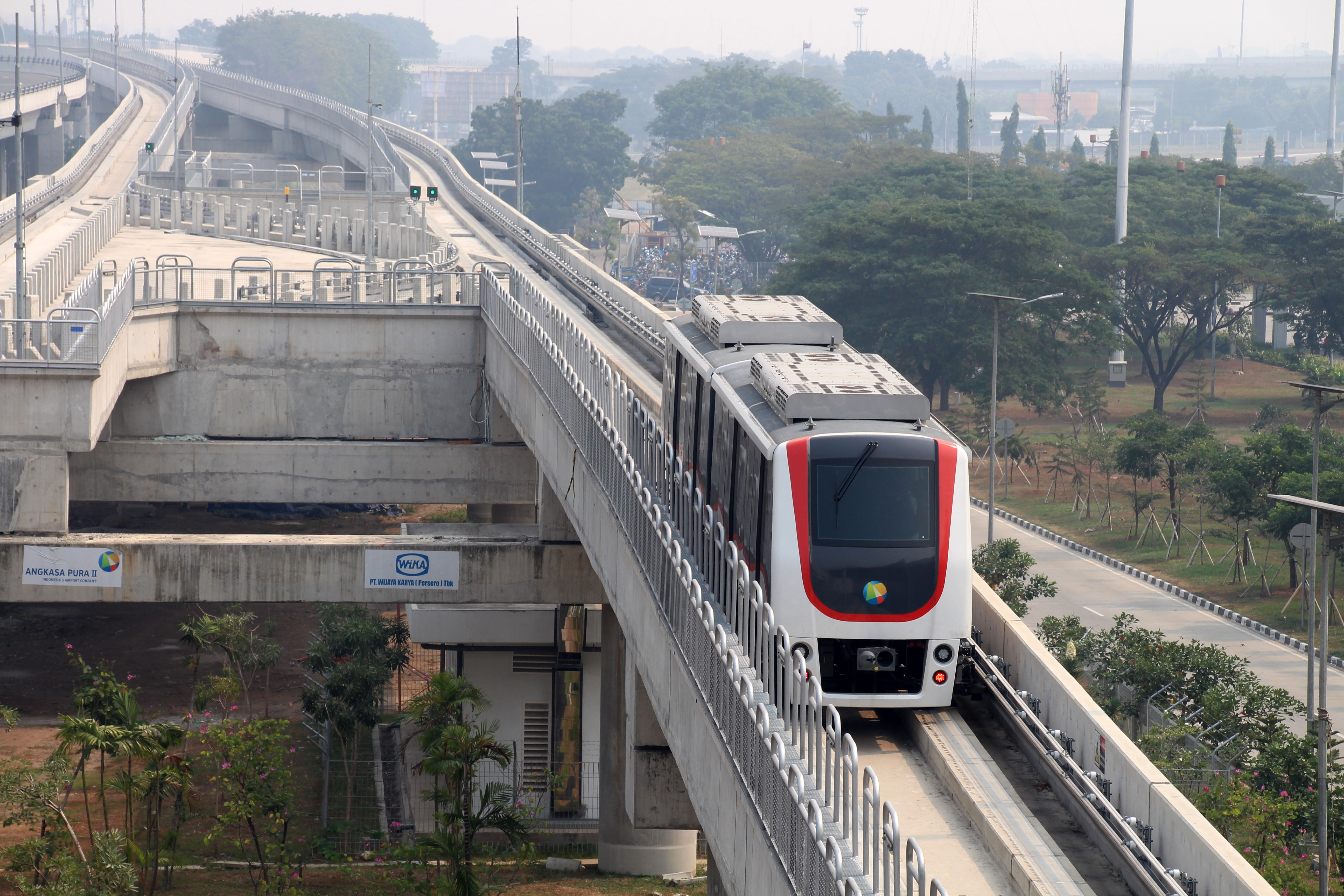 Soekarno-Hatta Skytrain automated people mover leaving Terminal 3 of Soekarno-Hatta International Airport, Jakarta, Indonesia.